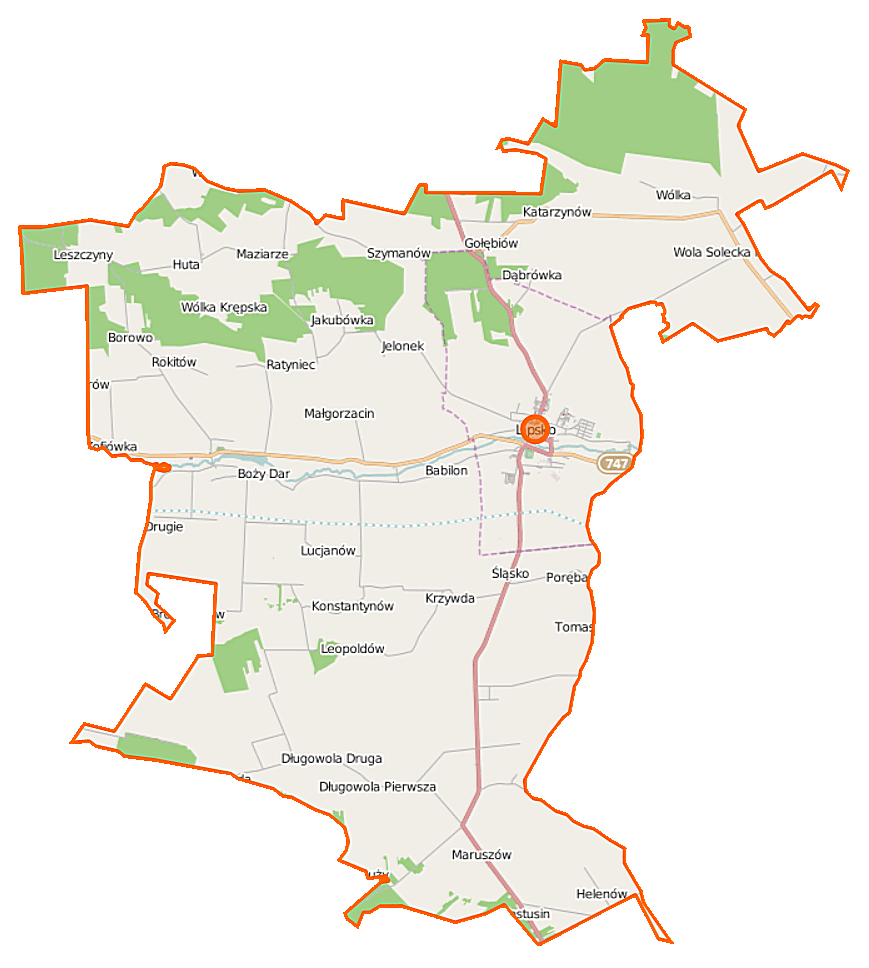 Map of Gmina Lipsko, Poland This map of Lipsko (gmina) was created from OpenStreetMap project data, collected by the community. This map may be incomplete, and may contain errors. Don't rely solely on it for navigation. Border coordinates51.232321.5030←↕→21.740651.0656